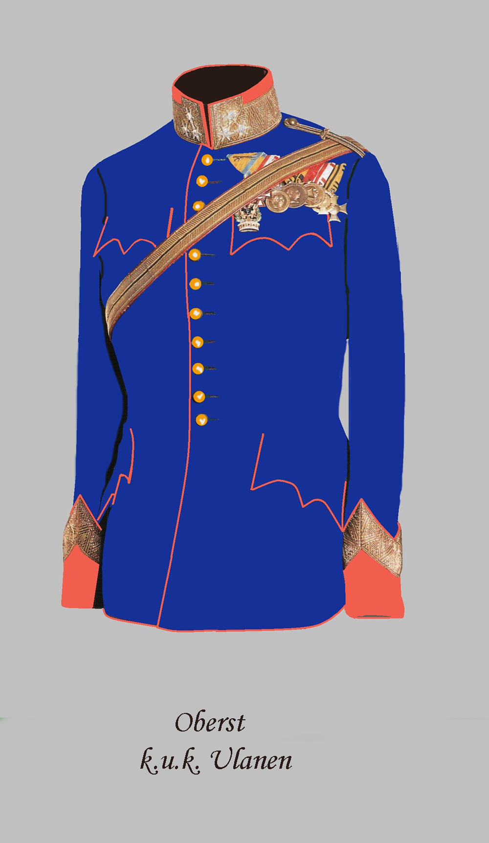 Tunic of an k.u.k. Lancers Colonel (Parade)